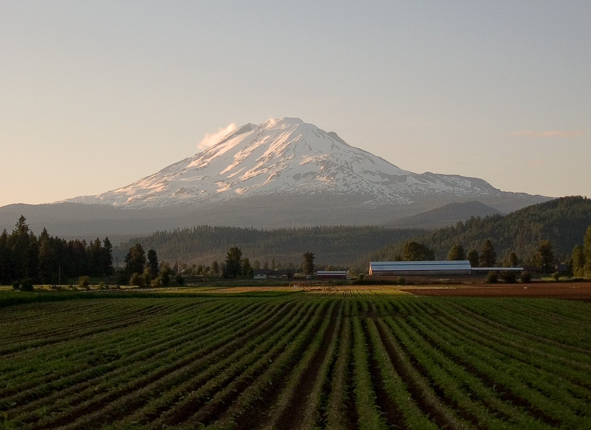 Mount Adams, in the late afternoon light, as seen from the Trout Lake Highway.